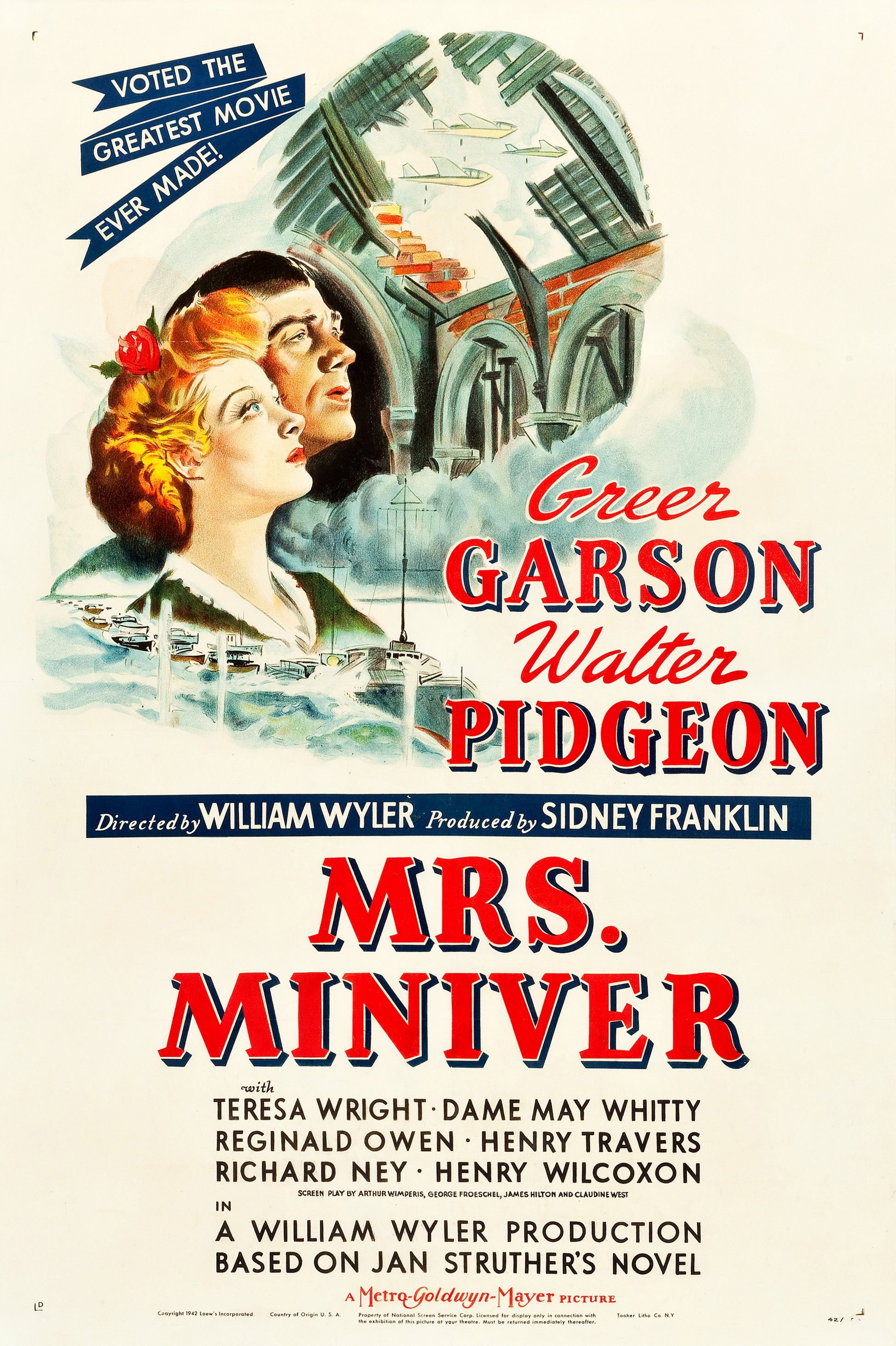 "Style D" theatrical release poster for the 1942 film Mrs. Miniver.